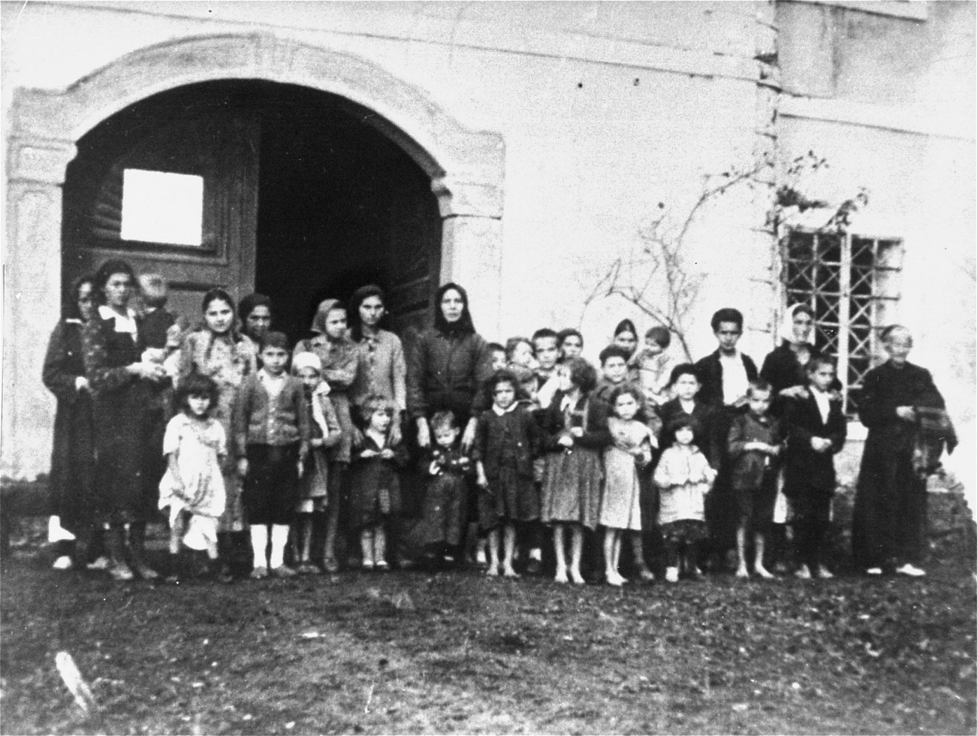 Group portrait of women and children in the Gornja Rijeka concentration camp.